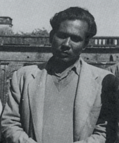 Zainul Abedin (1914-1976) was an artist from Bangladesh.